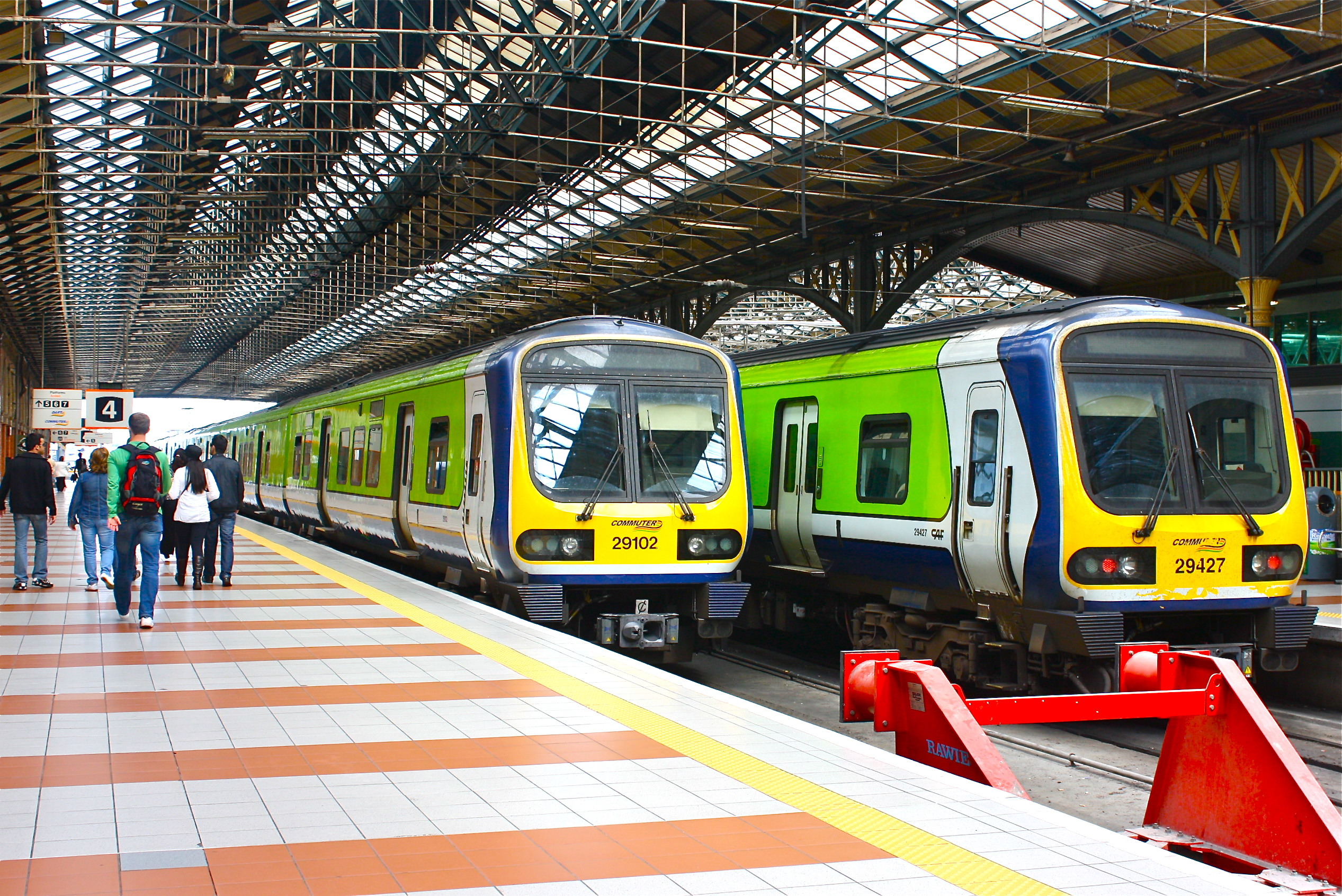 Dart Train at Connolly Station, Dublin